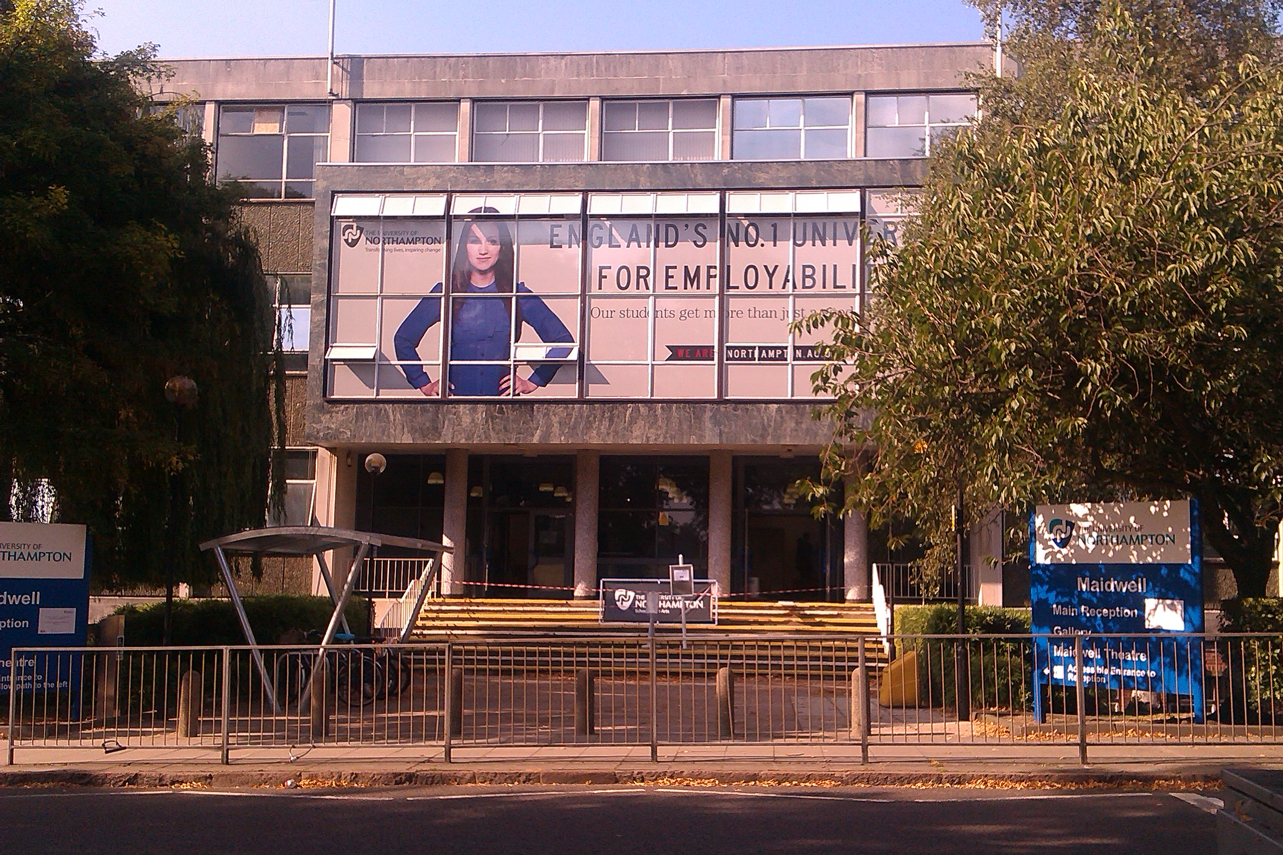 Maidwell Building, Avenue Campus, University of Northampton